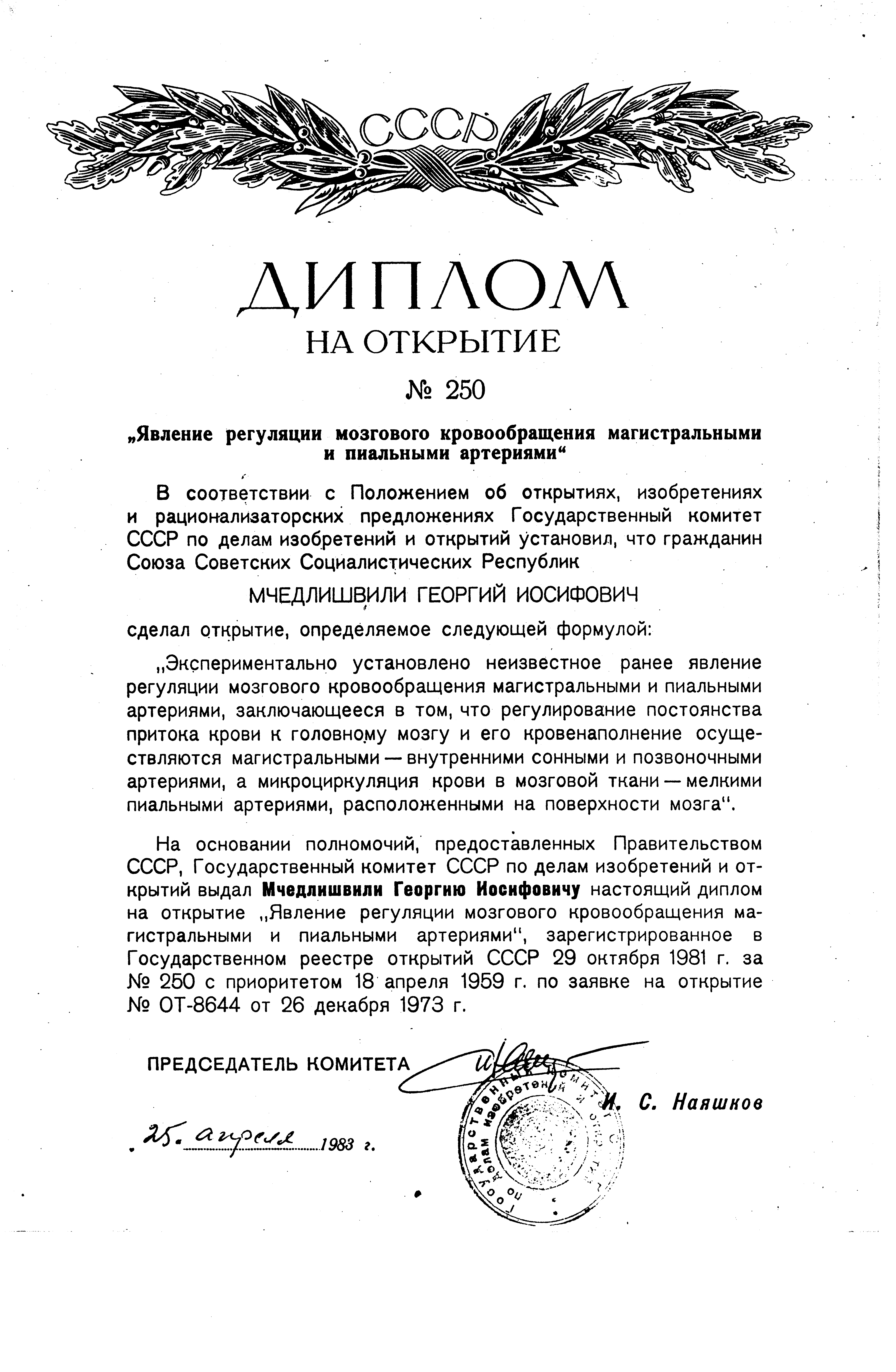 Diploma of the discovery #250, registered by the Committee of inventions and discoveries of the USSR